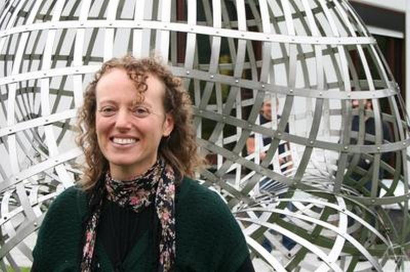 Tamar Ziegler, Oberwolfach 2012